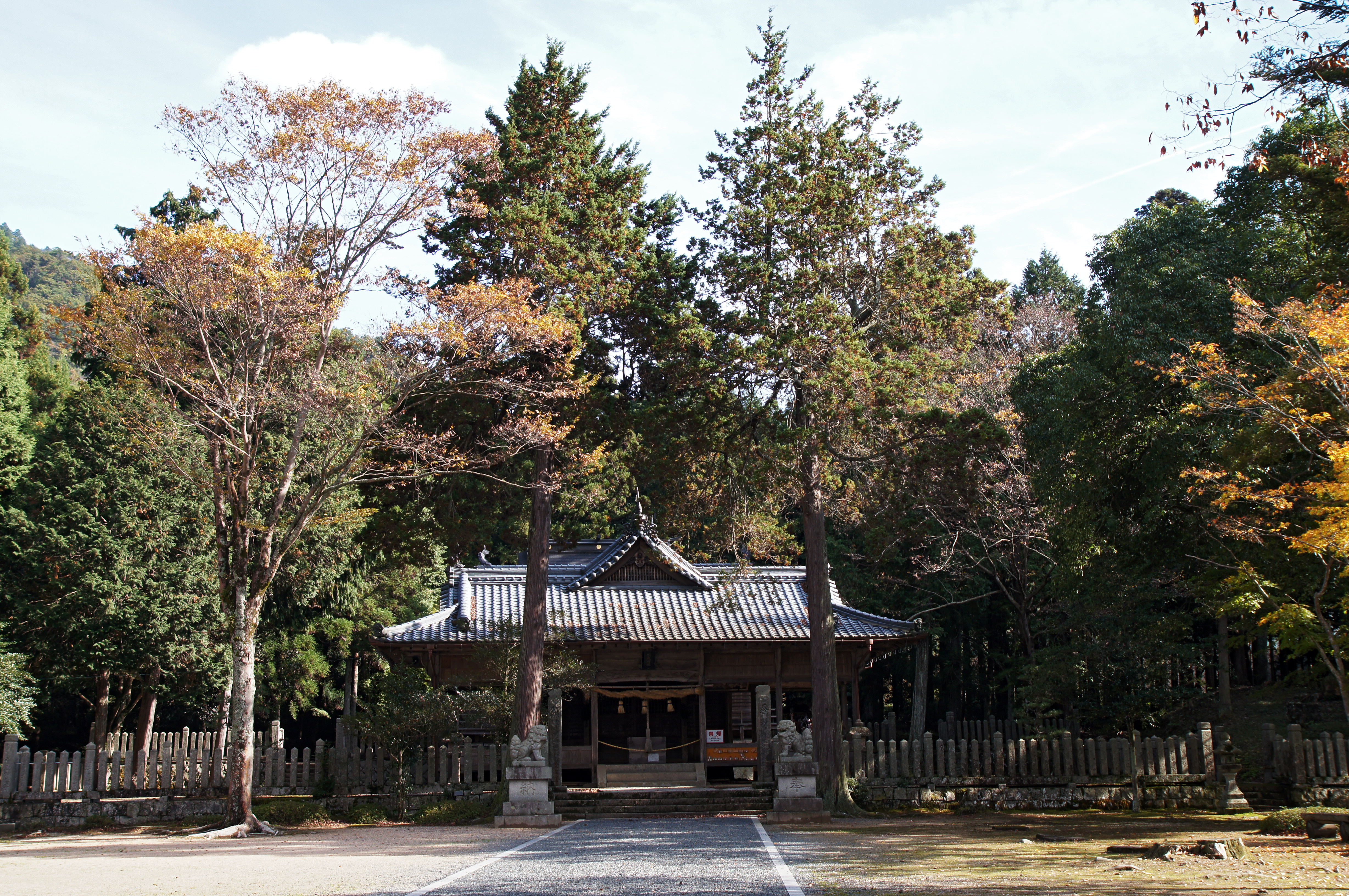 The ruins of Fukumoto Jinya are the present Otoshi-jinja, Kamikawa, Hyogo prefecture, Japan